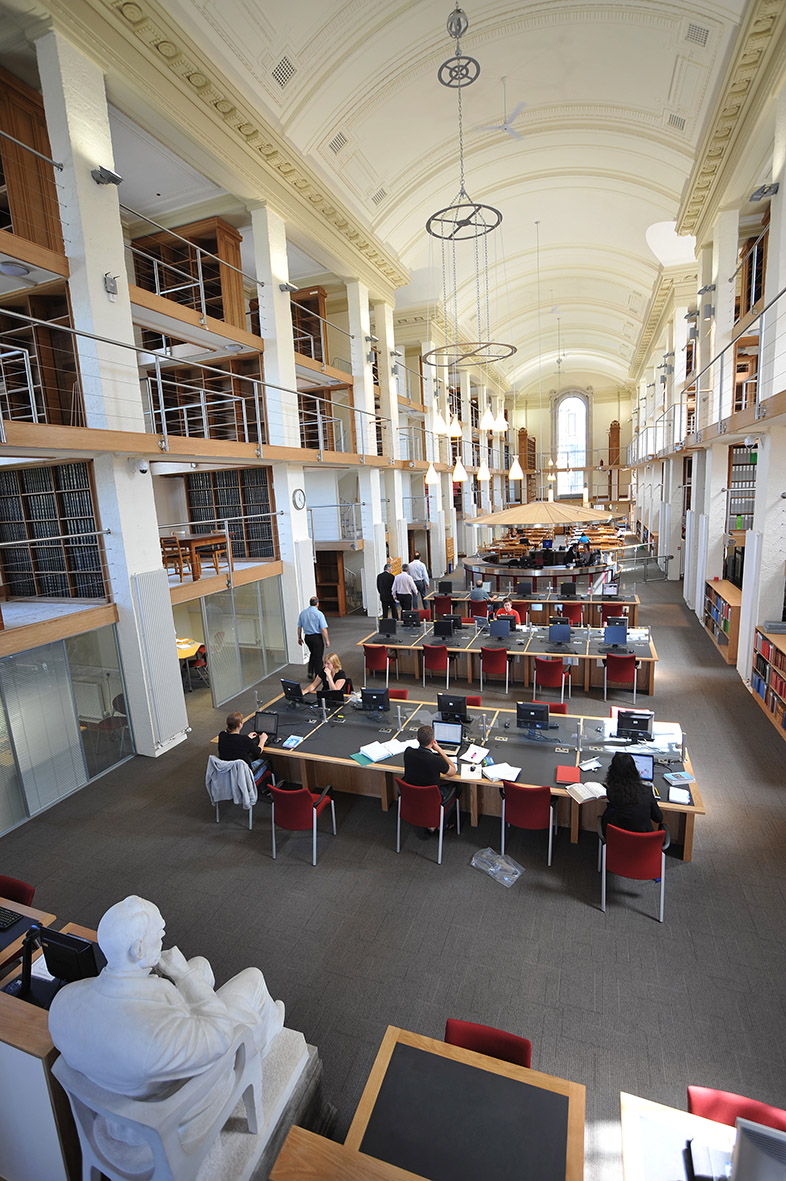 Promotional images of the National Library of Wales, Aberystwyth